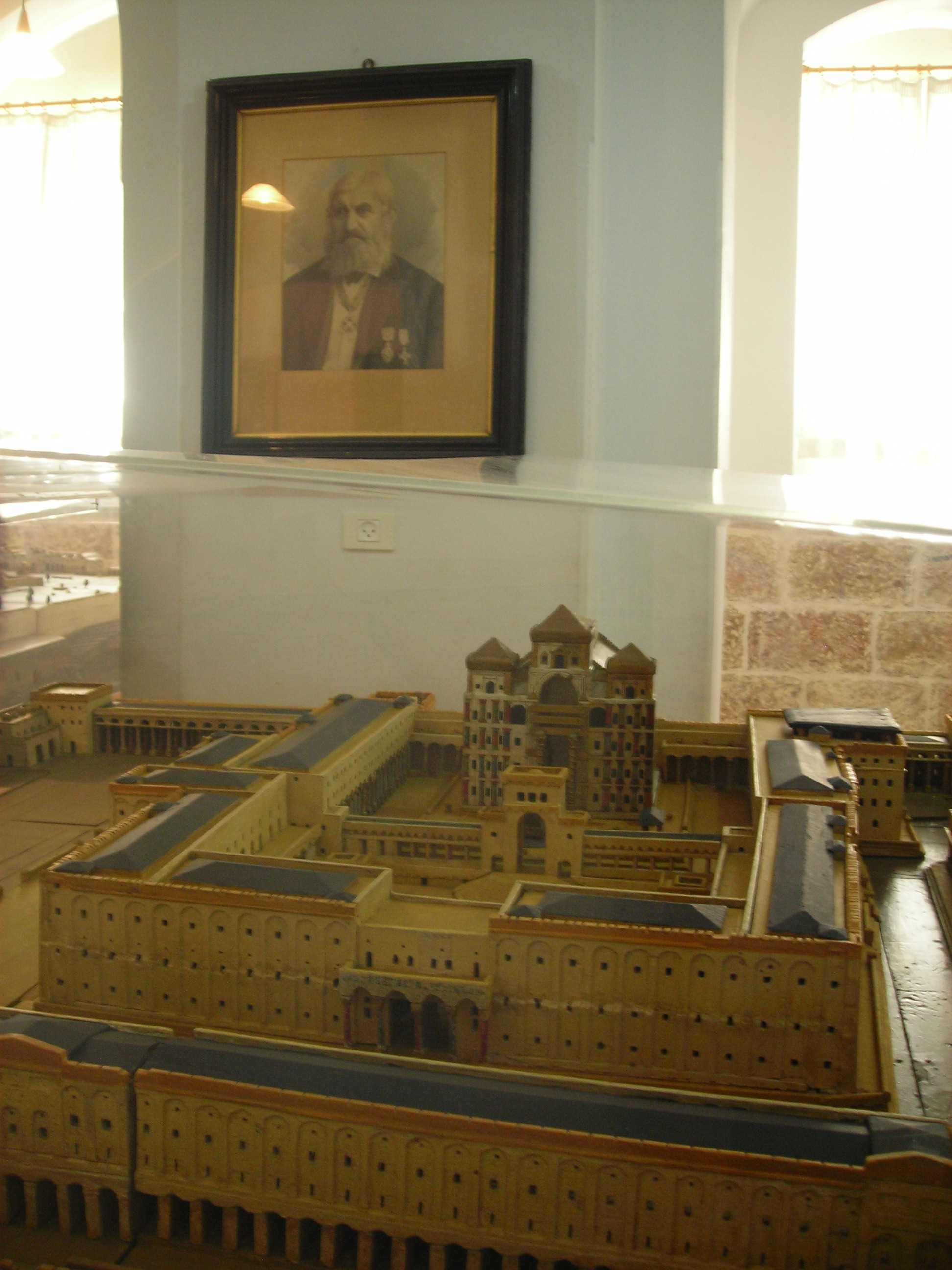 Portrait of Conrad Schick, and a model of the Jewish temple he created in the 1870s. Located in the basement of the Paulus-Haus hospice, across from Nablus gate, outside the old city of Jerusalem.